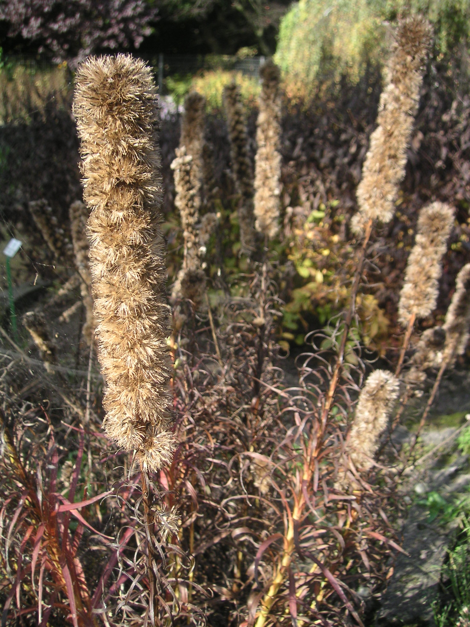 Fruits of Liatris spicata at Botanical Garden Krefeld, Germany.